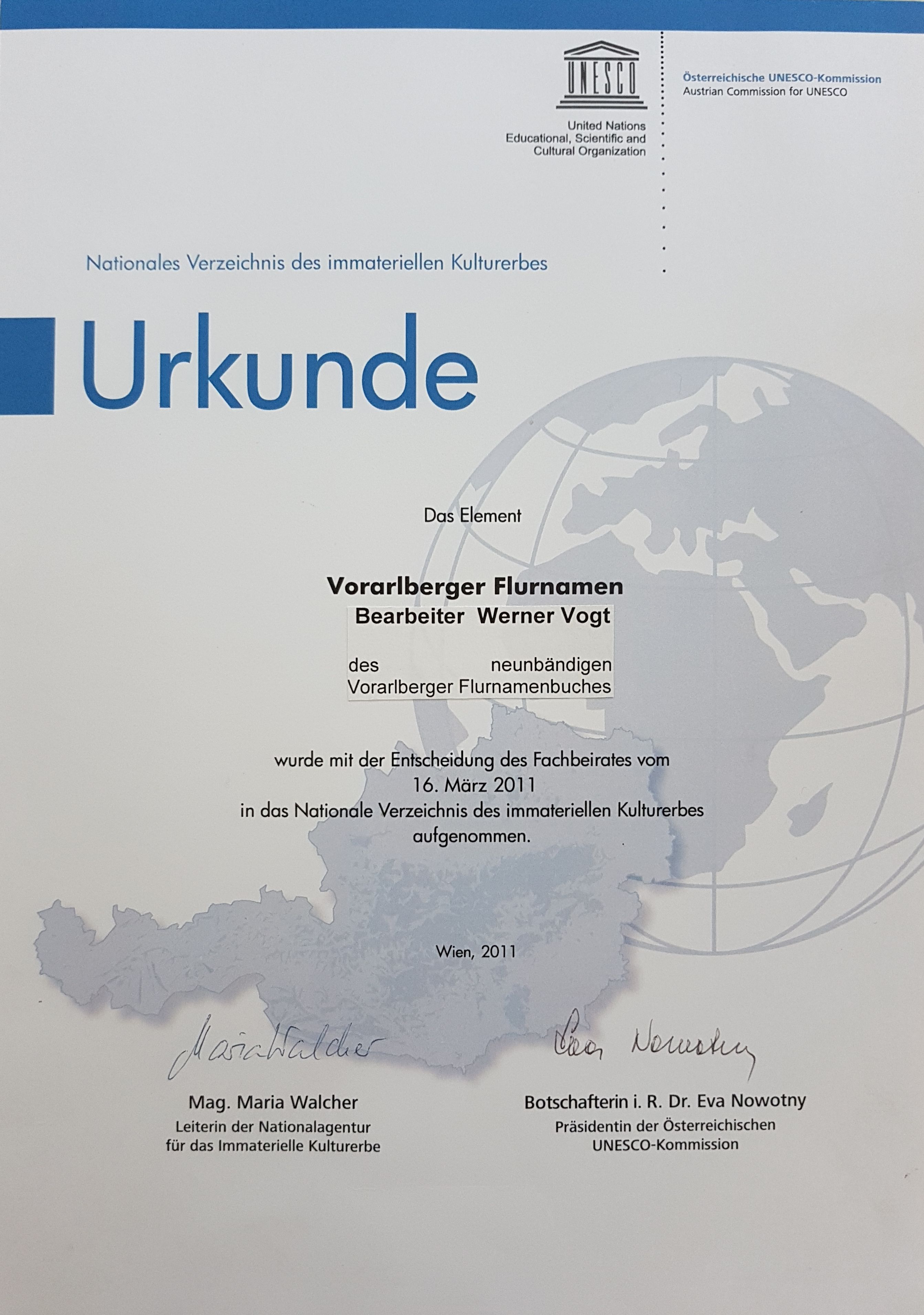 Werner Vogt (* 1931; † 2020), living in Hard, Vorarlberg, Austria. Certificate of incorporation of the "Vorarlberg Flurnamenbuch" (Book of names in Vorarlberg of meadows, fields or small areas) by Werner Vogt into the UNESCO national list of intangible cultural heritage.